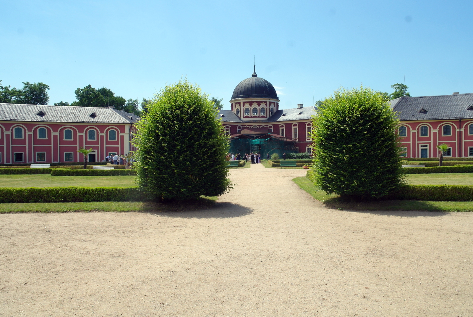 Castle Veltrusy Veltrusy and Všestudy, Veltrusy. View from the north through the Courtyard of Honor.